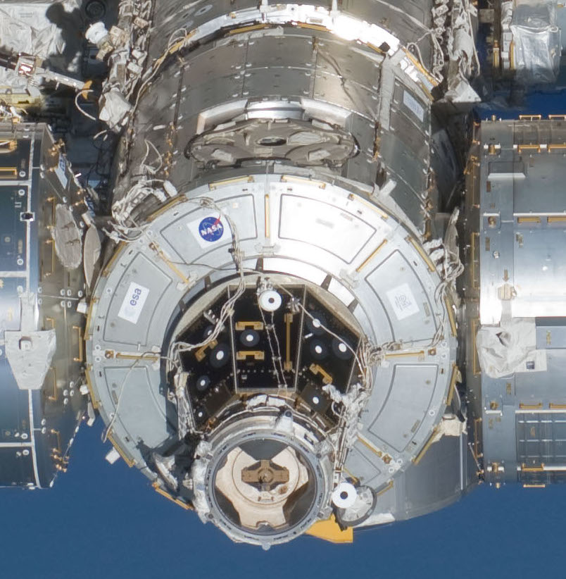 A close-up view of a section of the International Space Station is featured in this image photographed by an STS-134 crew member on the space shuttle Endeavour after the station and shuttle began their post-undocking relative separation. Undocking of the two spacecraft occurred at 11:55 p.m. (EDT) on May 29, 2011. Endeavour spent 11 days, 17 hours and 41 minutes attached to the orbiting laboratory.